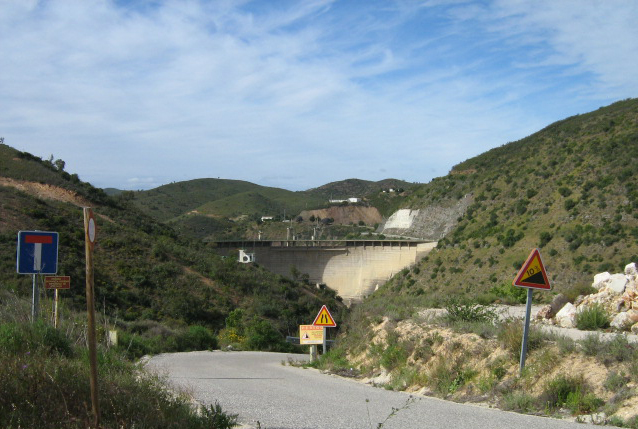 Barragem/Dam do Funcho, on the Arade River, northeast of Silves.